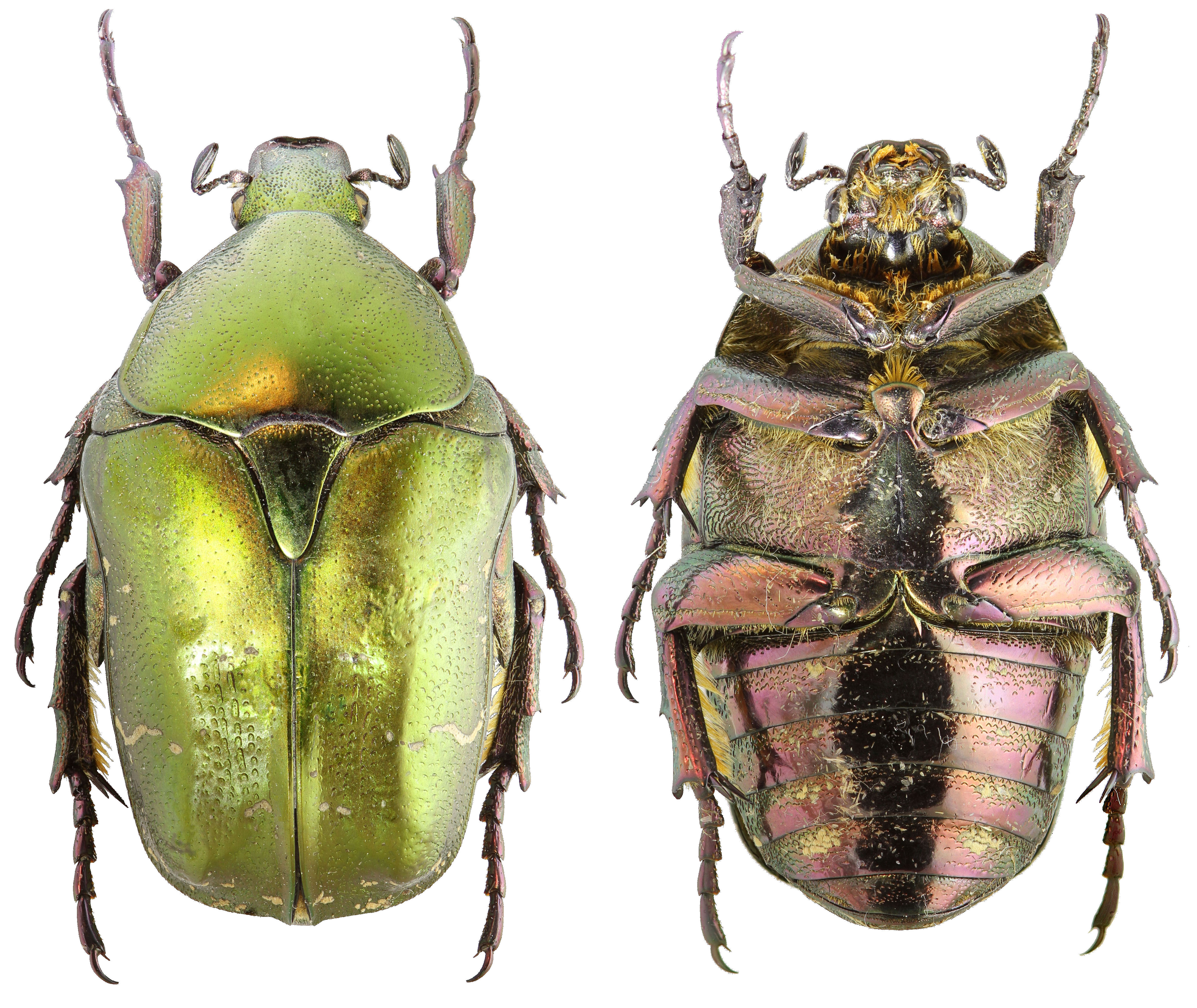 Protaetia (Netocia) cuprea obscura. Dorsal and ventral habitus. Dried specimen from Szentendre, Hungary.